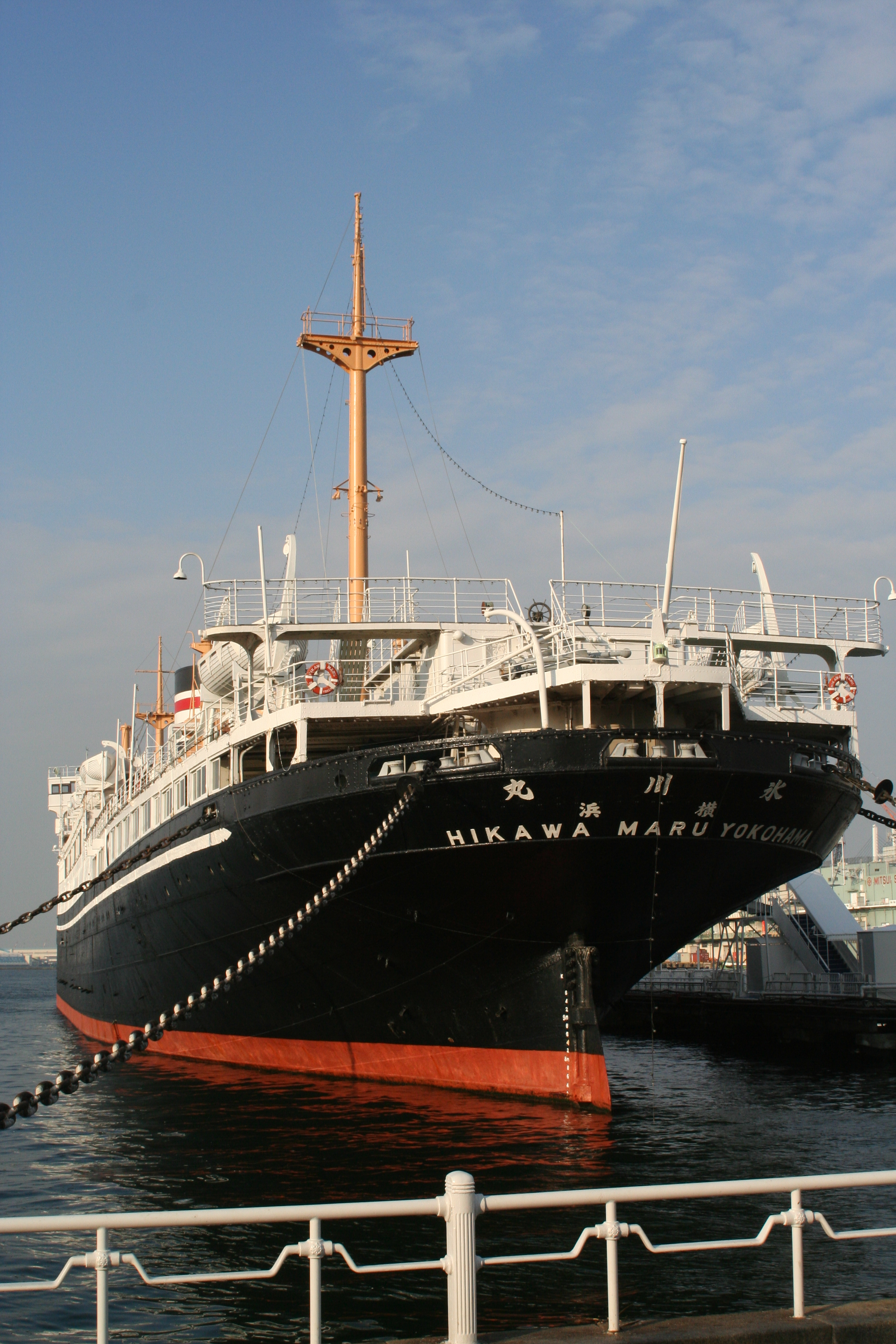 Fifth Meeting of German-speaking Wikipedians in the Tokyo area. Hikawa Maru at Yokohama.